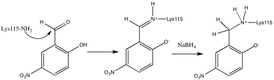 Reporter molecule scheme used by Wesheimer et al.